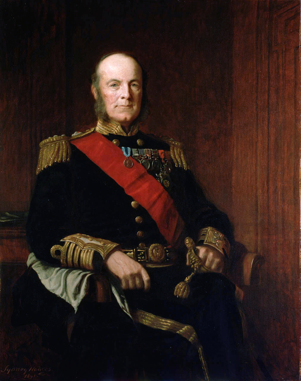 was an officer of the Royal Navy who held command during the Crimean War and later served as First Sea Lord.